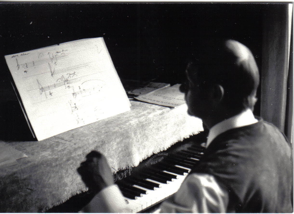 Austrian Composer Gerhard Lampersberg while he is composing at the famous Tonhof in Maria Saal (Privatphoto of Prof.Renate Spitzner)